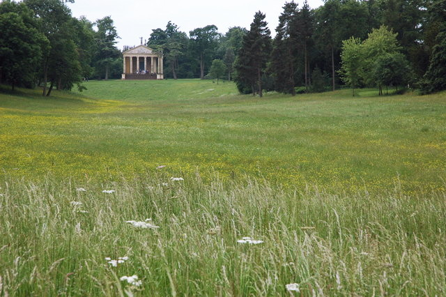 The Temple of Concord and Victory, Stowe The Temple of Concord and Victory, viewed along the Grecian Valley. The temple is one of the grandest in any garden in the country, it was begun in 1747 for Lord Cobham and originally called the Grecian Temple.